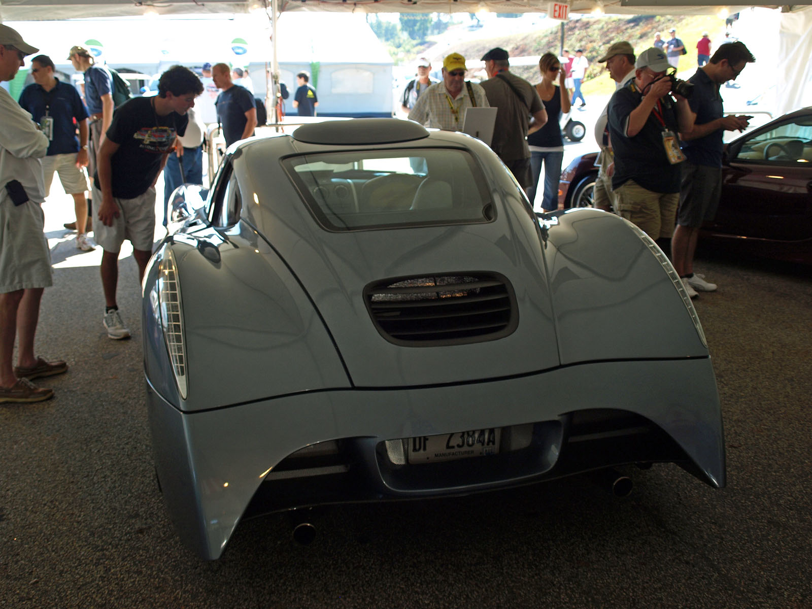 The Panoz Abruzzi on display at the 2010 Petit Le Mans.